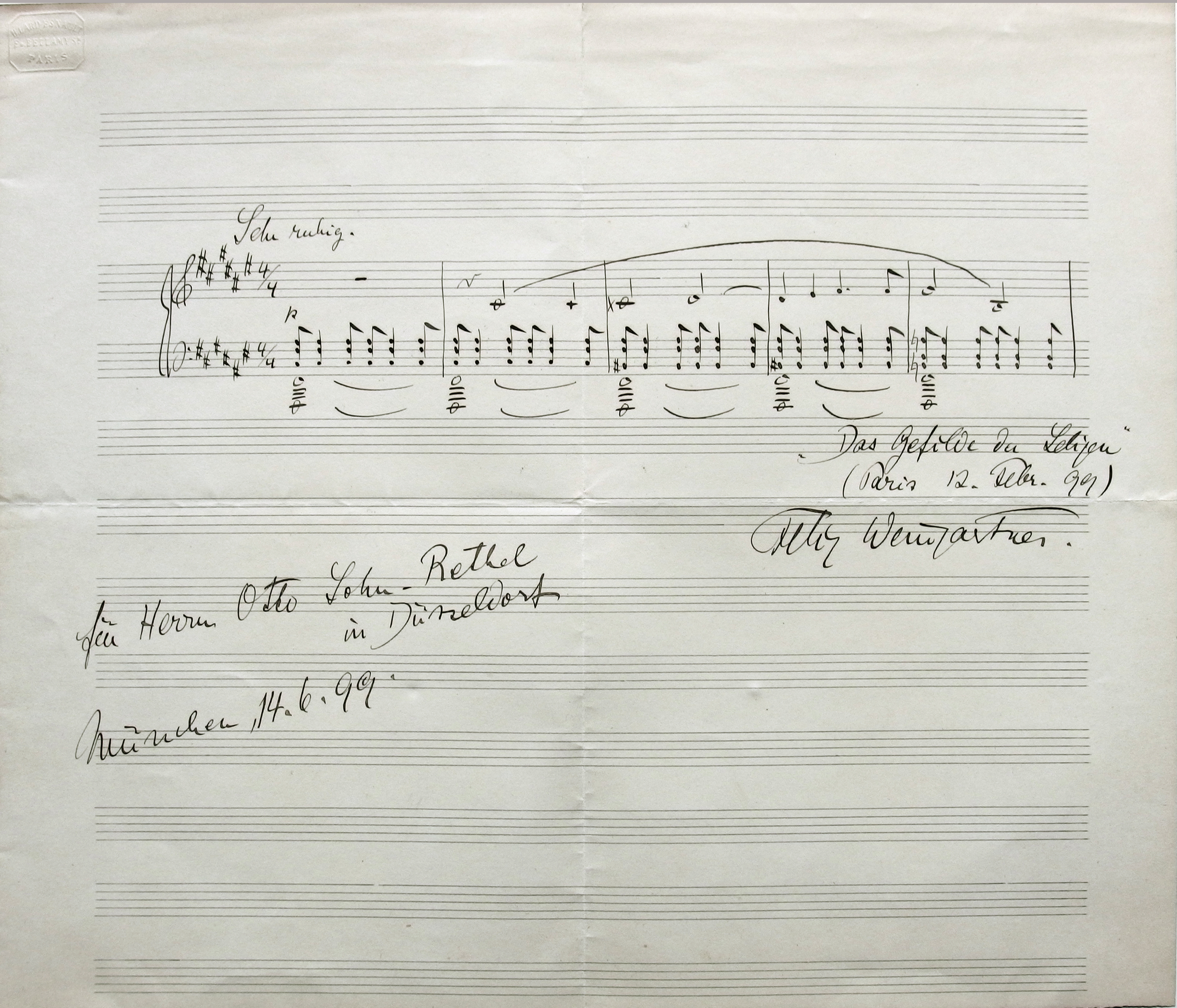 "Das Gefilde der Seligen", Sheet music of Felix Weingartner, Paris Feb 12th, 1899, sent from Munic to Otto Sohn-Rethel, in Düsseldorf, June 14th, 1899